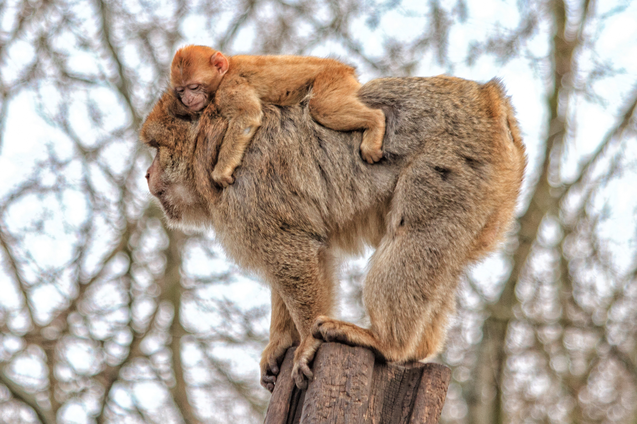 Barbary Macaques (Macaca sylvanus), Tierpark Berlin